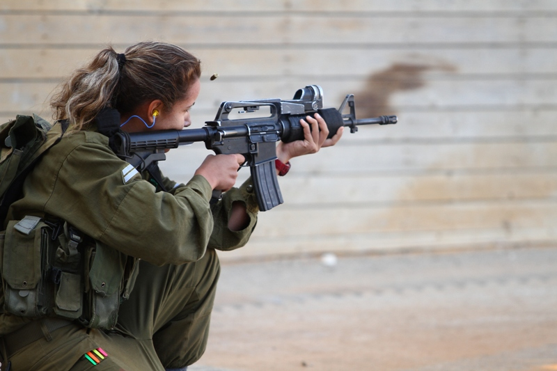 November 22, 2010. Combat soldiers from the Karakal and Magal units take part in the IDF-wide Combat Fitness Competition. The Combat Fitness Competition is a surprise tournament which the Chief of the General Staff announces only one month beforehand. During the tournament, units from all branches and commands in the IDF compete in different disciplines, such as navigation on foot, hand-to-hand combat ("krav maga"), shooting under duress, and various physical fitness tests. The competition started on Thursday, November 11th, and ended with a formal ceremony in attendance of the Chief of the General Staff on the 24th. לוחמות מיחידות קרקל ומגל ממשתתפות באליפות צה"ל בכושר קרבי. אליפות צה"ל בכושר קרבי הינה אליפות פתע, עליה הודיע הרמטכ"ל כחודש לפני התחרות. במהלכה, מתחרות כלל יחידות צה"ל במקצים השונים- תרגילי ניווט, ירי, קרב מגע, בוחן פלוגה, בוחן צוות, בוחן מסלול ובוחן ימי. האליפות התחילה ביום ה' 18.11, ותיסגר בטקס הסיום אשר יהיה בראשות הרמטכ"ל, ביום ד' 24.11.